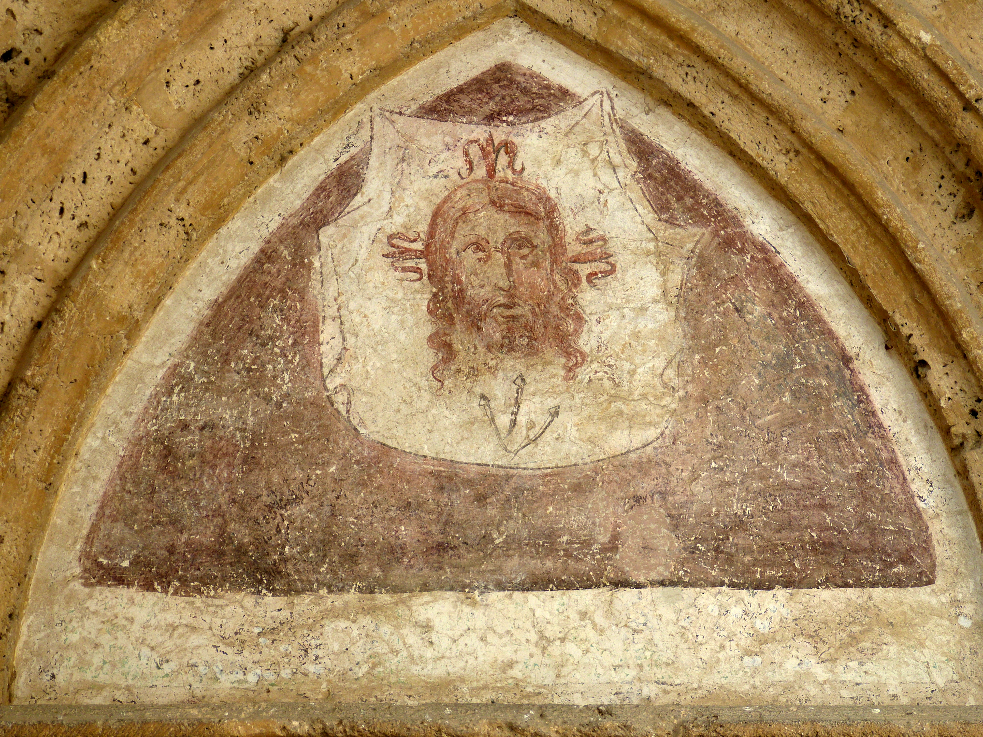 Grongörgen ( Lower Bavaria ). Saint Gregory church ( 1460 ): Gothic southern portal - Fresco ( 16th century ) of the veil of Veronica at the tympanum.